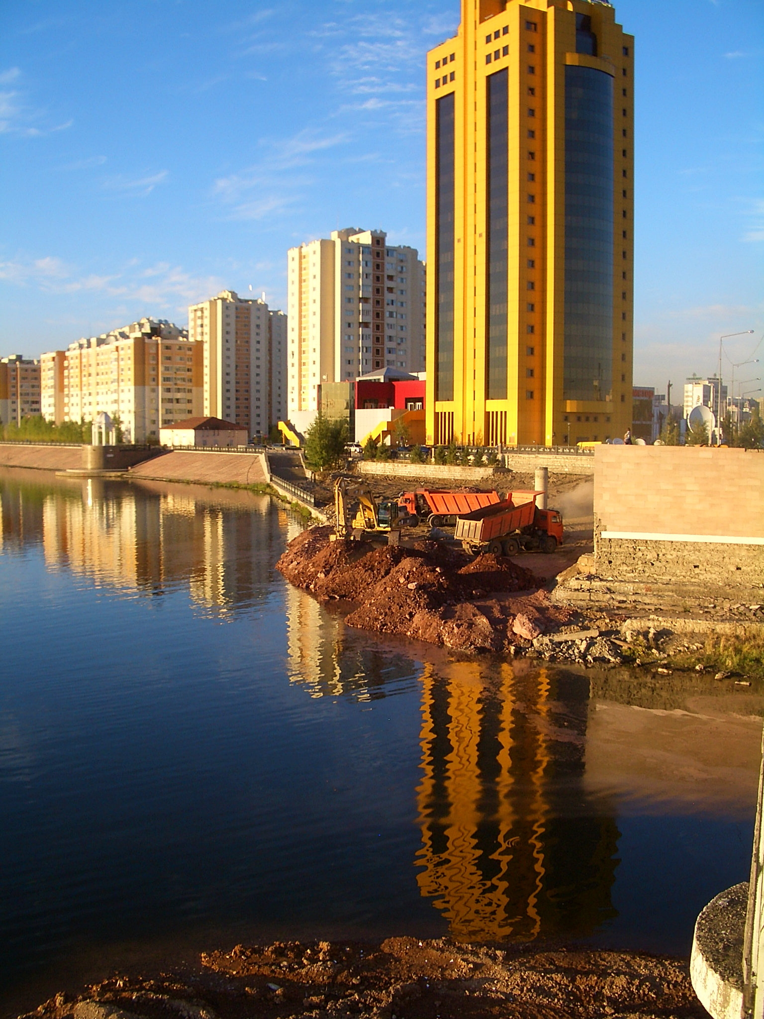 Dump trucks at the construction of an area of an Ishim River embankment near a new bridge in Nur-Sultan, Kazakhstan.